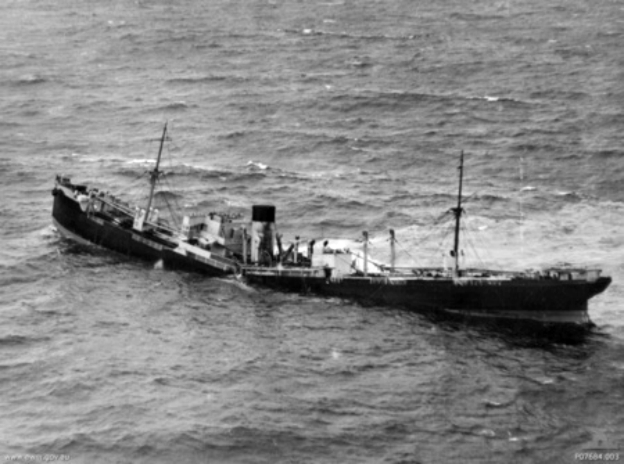 View from a 10 Squadron, RAAF, Short Sunderland circling the sinking SS Geraldine Mary, (of the A.N.D Company). The ship departed Botwood, Newfoundland, under the command of Captain George McCartney Sime on 19 July 1940 carrying 43 people and 610 tons of rolled news print bound for England. Fifteen days out, the ship was torpedoed by the German U-Boat U-52, captained by Otto Salman, resulting in the deaths of two crewmen and one passenger. The ship was abandoned and soon broke in two, capsizing and sinking not far from the Irish coast. The master and 27 survivors were picked up by a British escort vessel and landed at Methil on 8 August. Six survivors were rescued and landed at Liverpool and 14 others landed at Uig, Isle of Lewis. Among the survivors were four passengers. Captain Sime died less than a year later on another company ship, the Rothmere, which sank on 20 May 1941 between Greenland and Iceland.